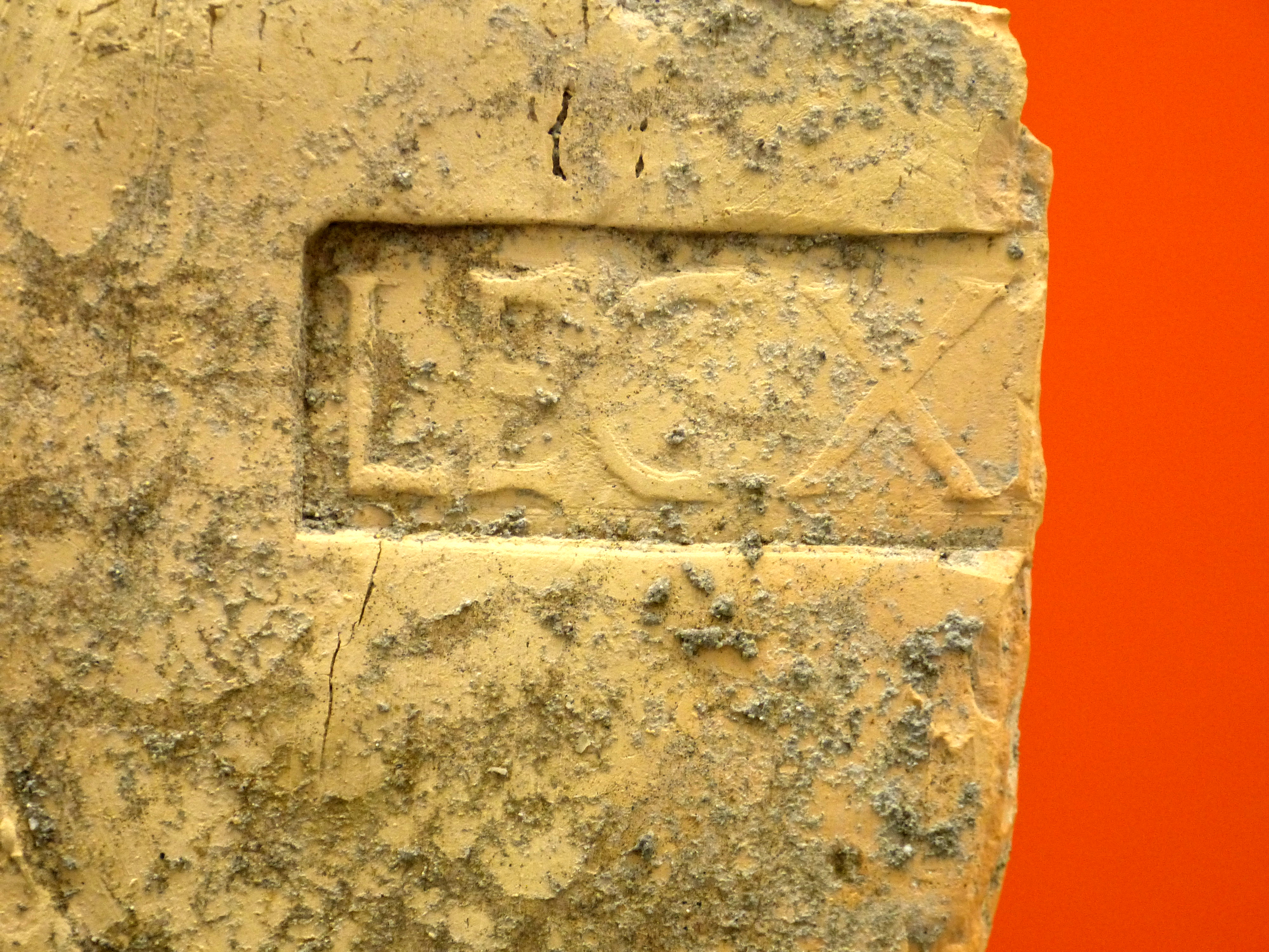 Konstanz ( Baden-Württemberg ). Archaeological Museum of Baden-Württemberg: Ancient Roman roof tile with stamp of the 11th legion, located ( 71-101 AD ) in Vindonissa, from Konstanz.